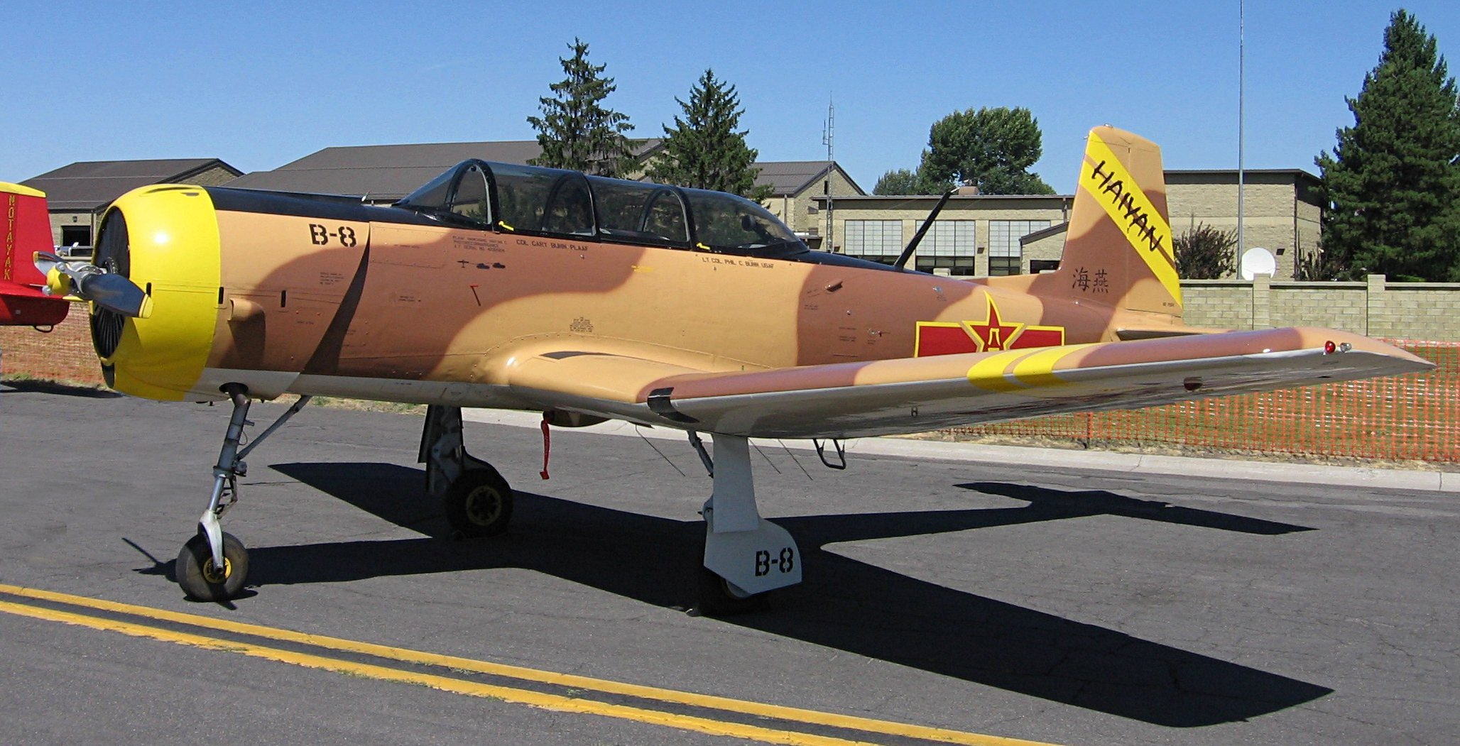 Front corner view of a Nanchang CJ-6 trainer aircraft, photographed at the Spokane Airshow